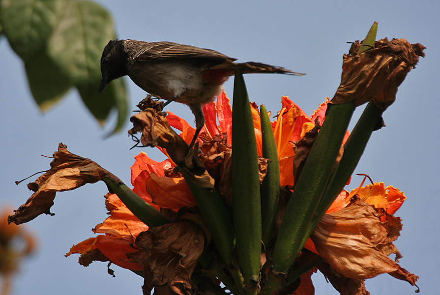 Red-vented Bulbul Pycnonotus cafer feeding on Spathodea campanulata in Kinnerasani Wildlife Sanctuary, Andhra Pradesh, India.